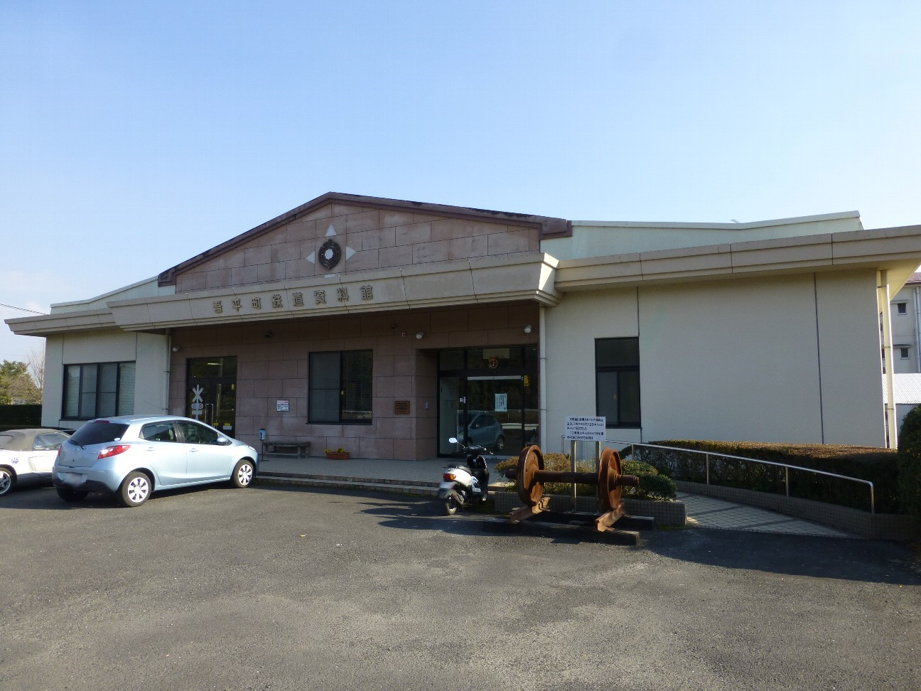 Aira railway memorial, which commemorates abandoned Aira railway station of JNR Osumi line, Kanoya, Kagoshima, Japan. The memorial was closed in 2015.